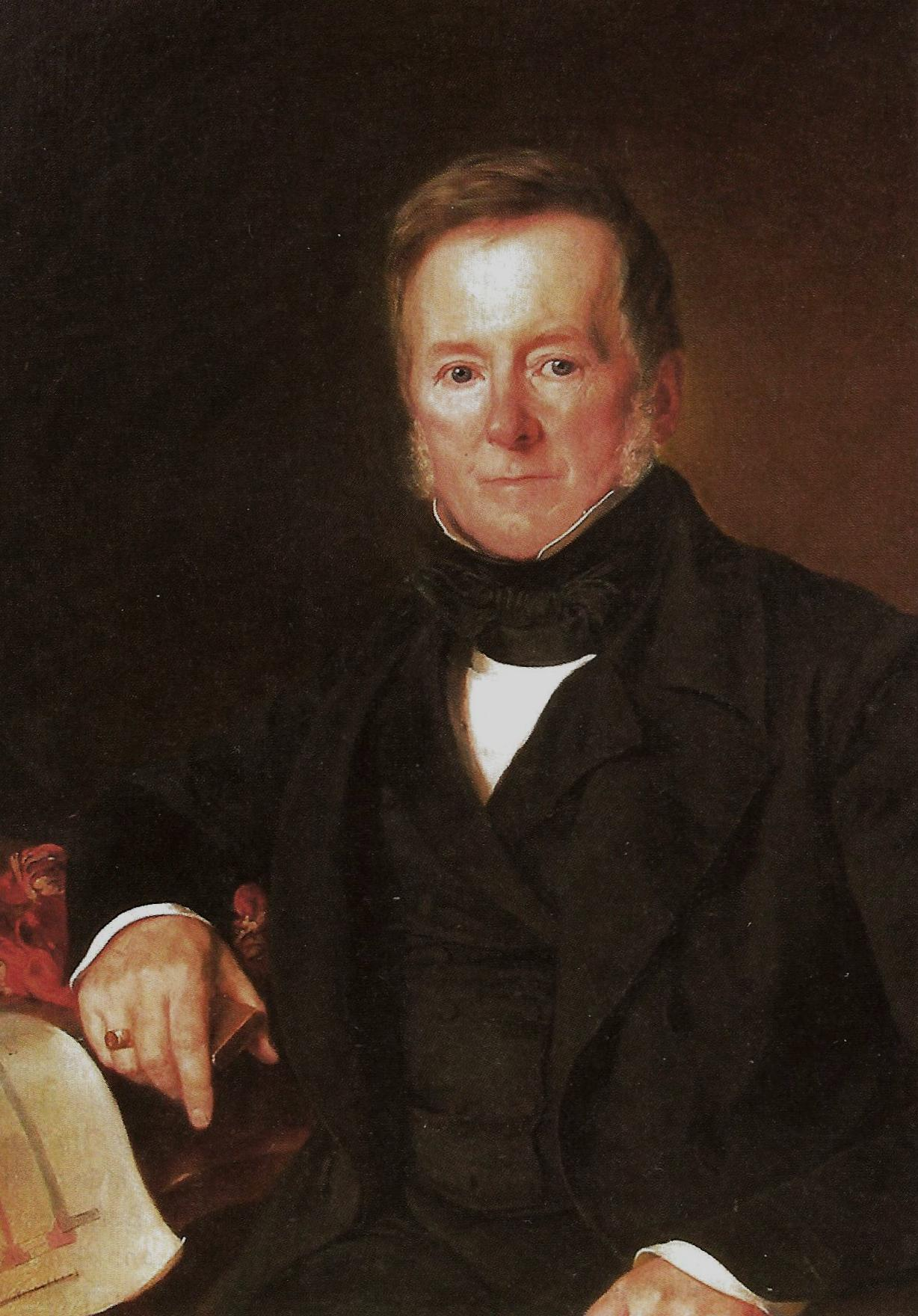 Portrait Beat Friedrich von Tscharner (1791-1854), physician.